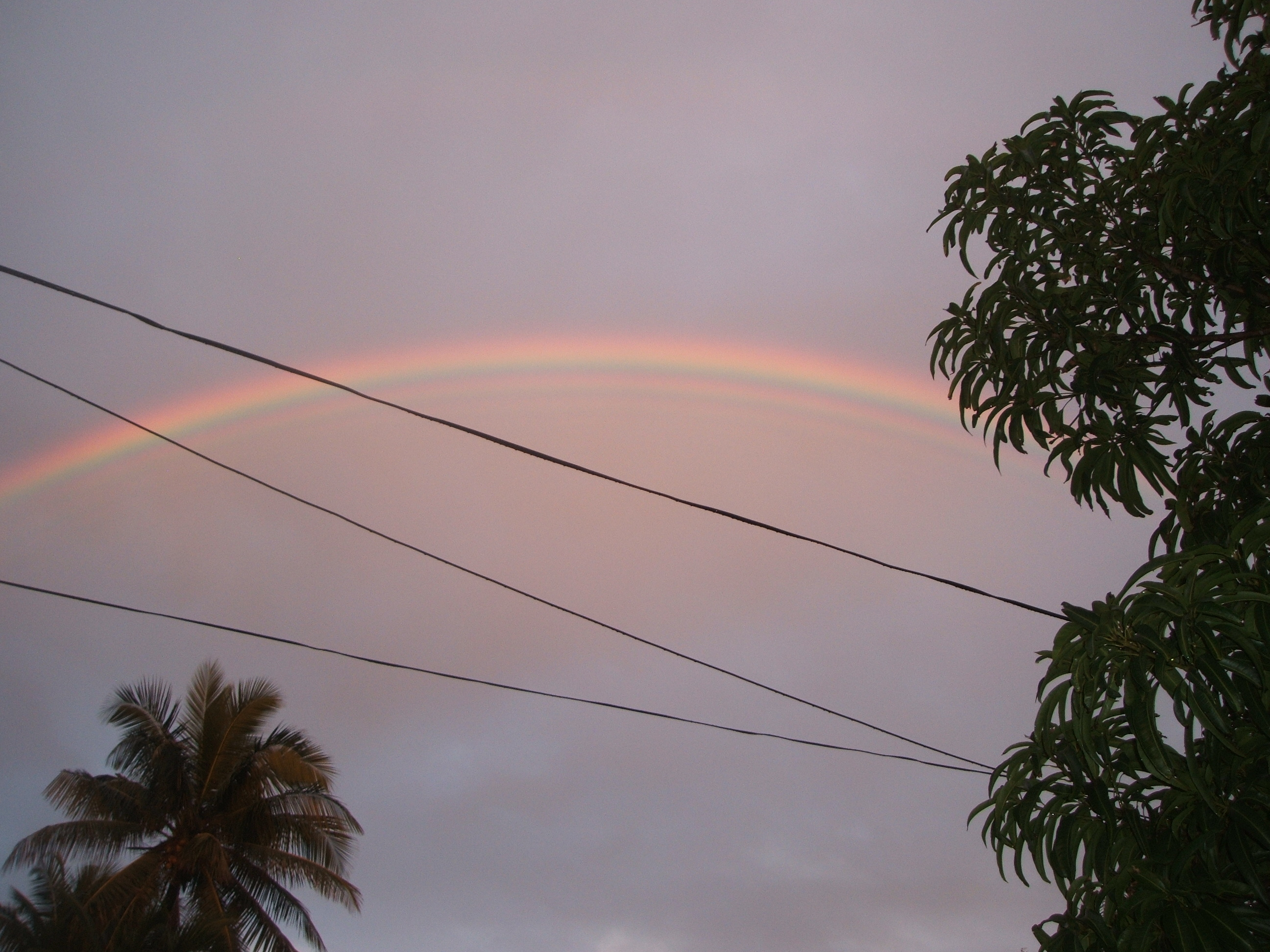 I took this photo of Triple rainbow in Trincomalee on 9th of January 2013.